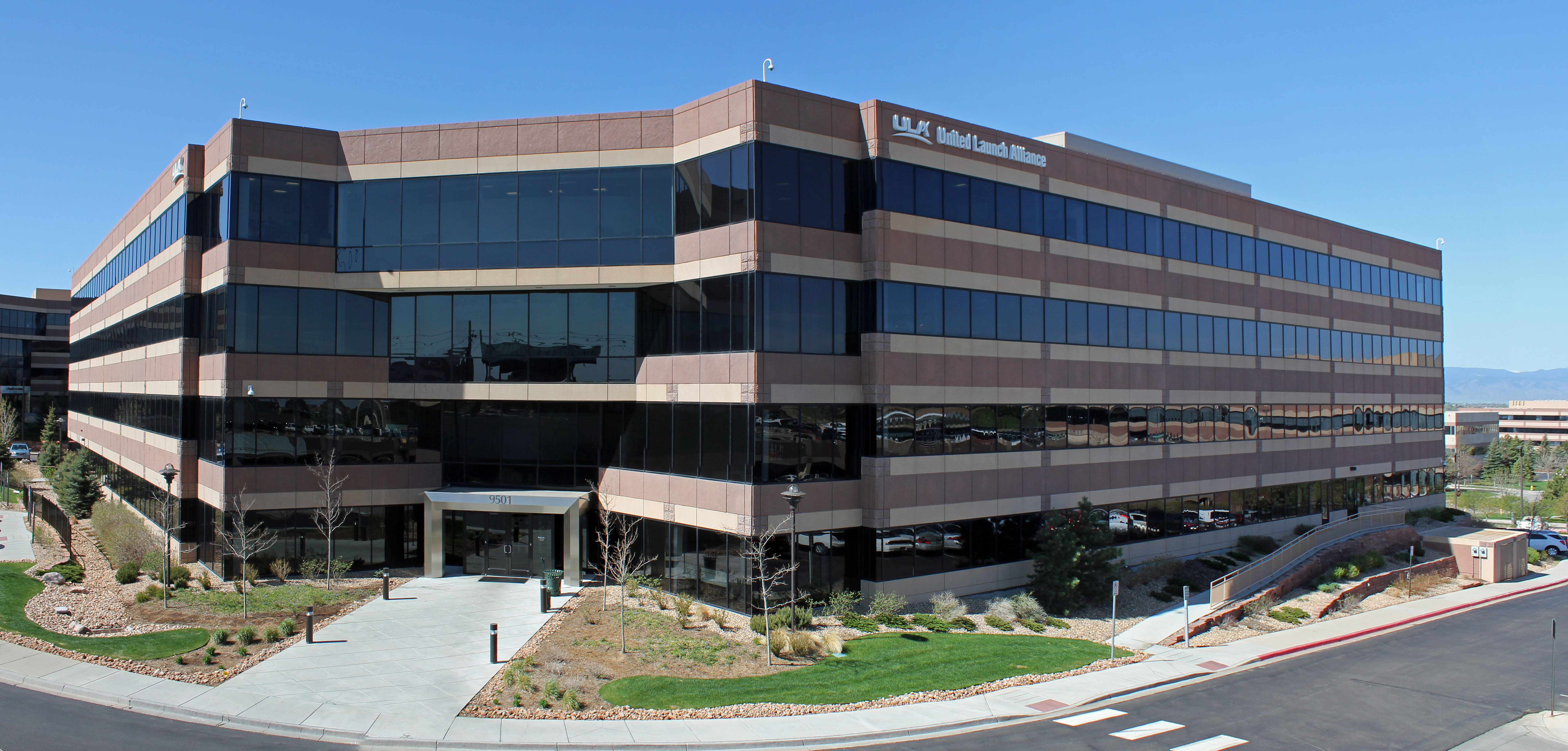 The United Launch Alliance headquarters, located at 9501 East Panorama Circle in Centennial, Colorado.